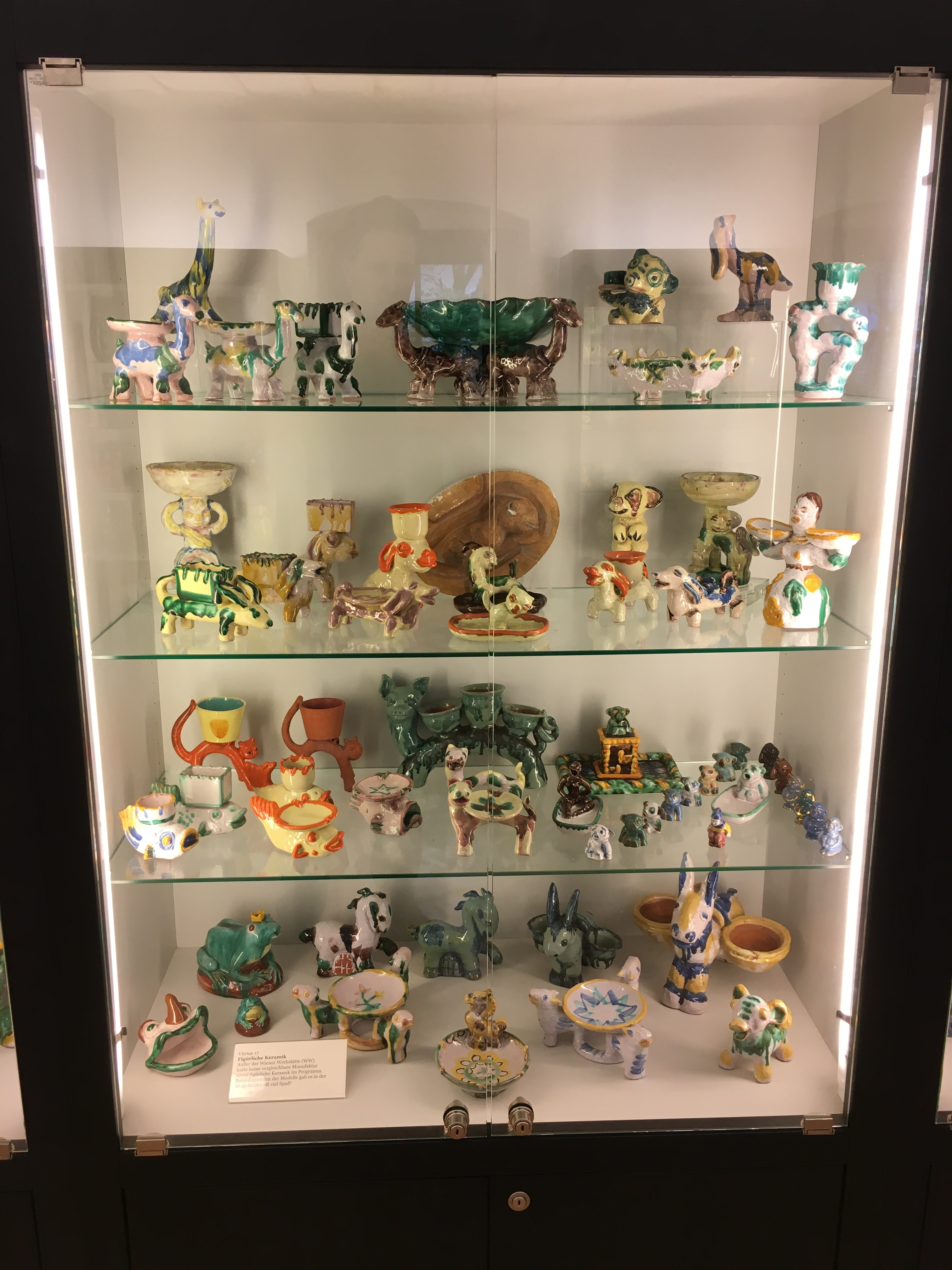 Tonindustrie Scheibbs Figuren